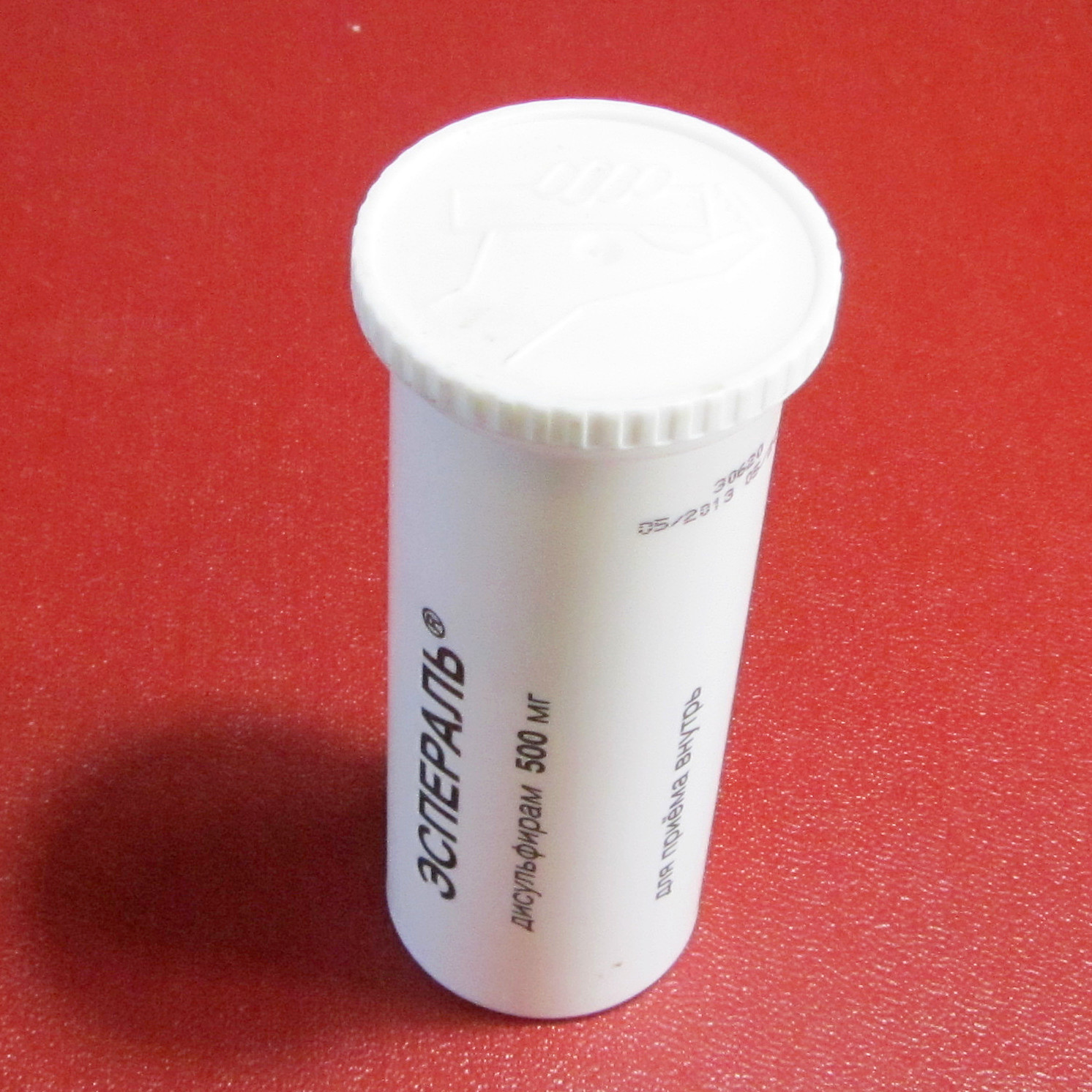 Disulfiram